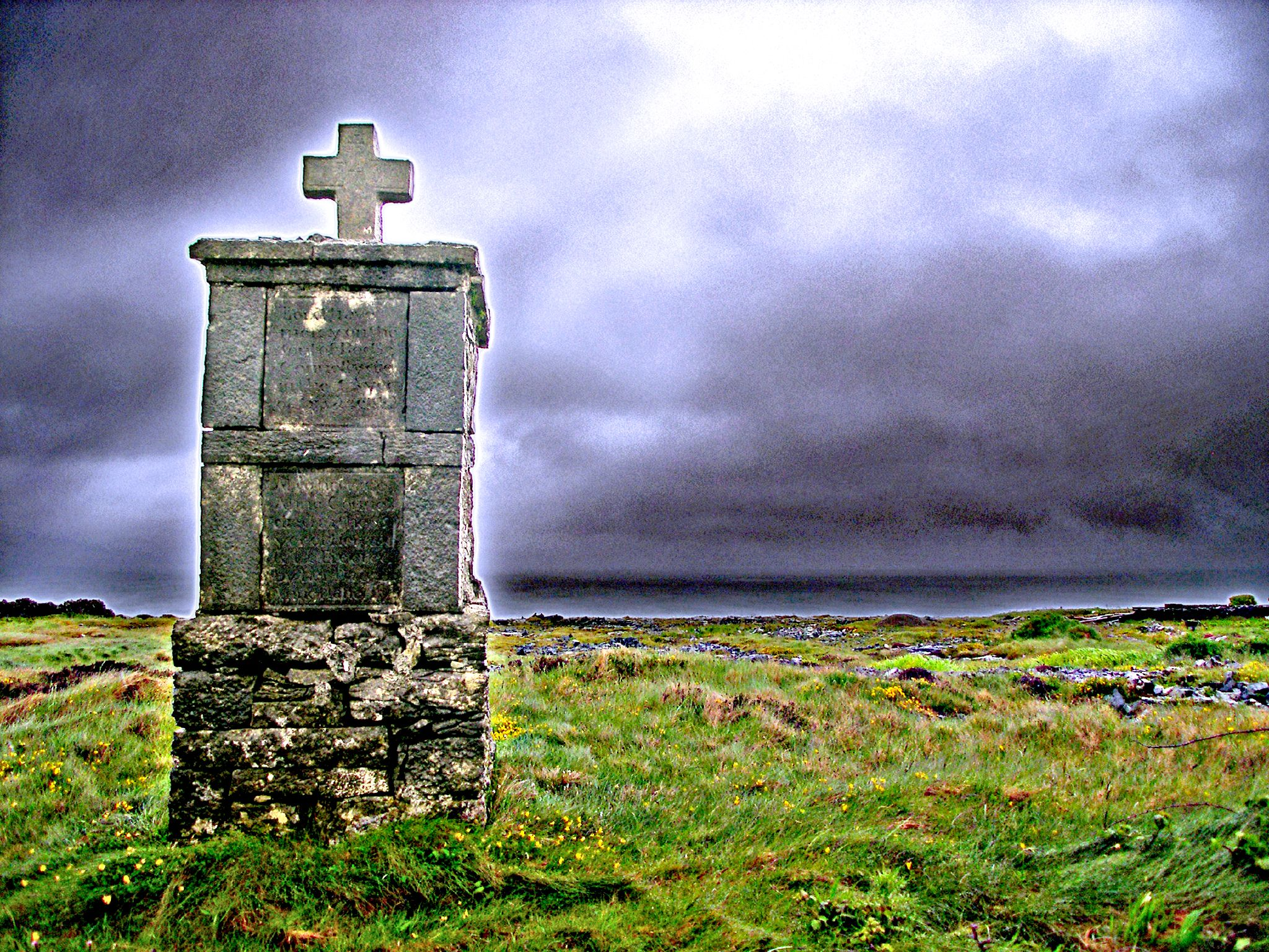 Inishmore, Aran Isles, County Galway, Ireland